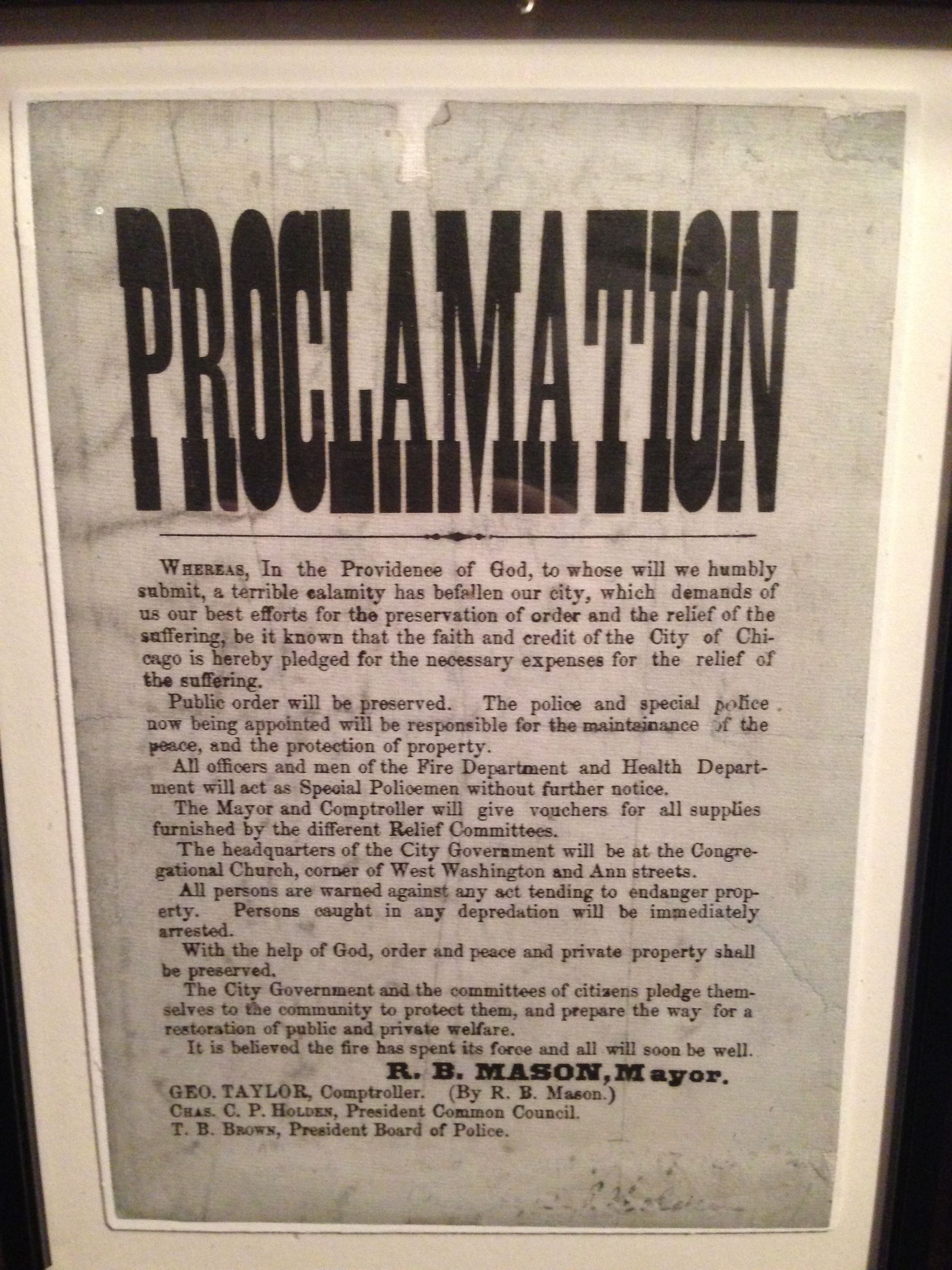 PROCLAMATION, Chicago History Museum